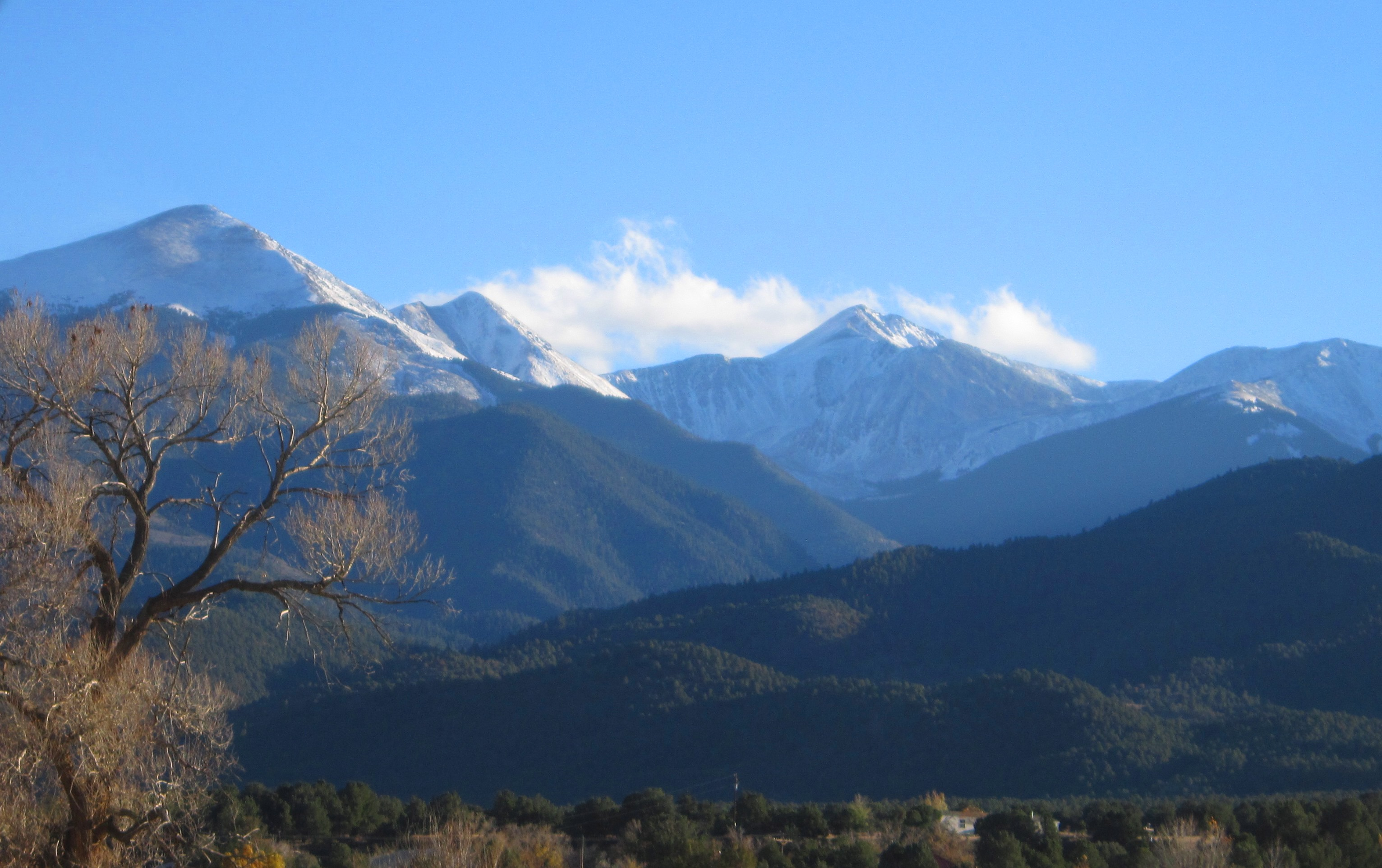 Sangre Mountains from Cotopaxi